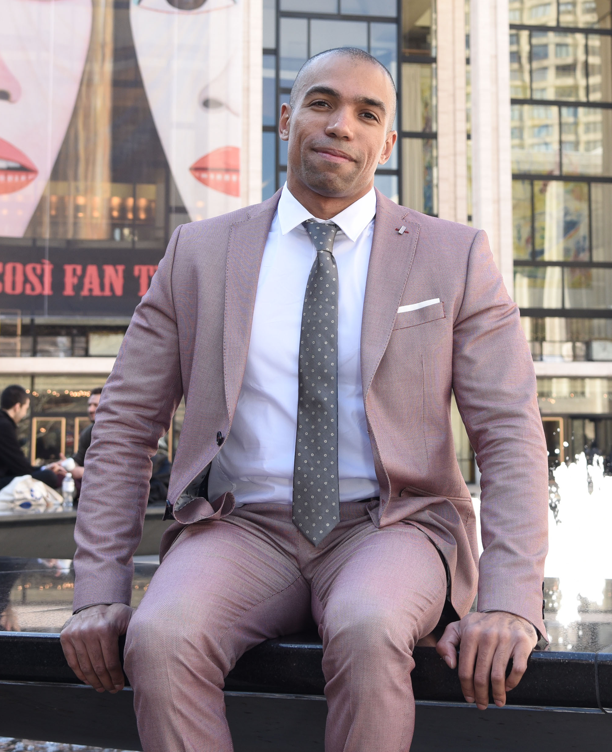 Adam Davenport at Lincoln Center